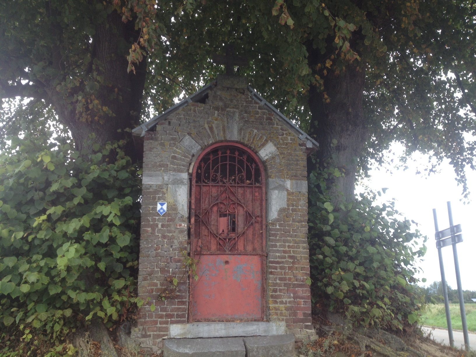 Chapelle Bon dieu d'ans